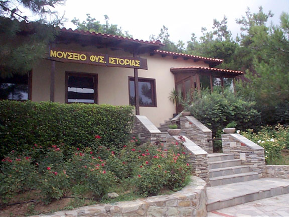 View from outside, image from the Natural History Museum, Thessaloniki, Central Macedonia, Greece